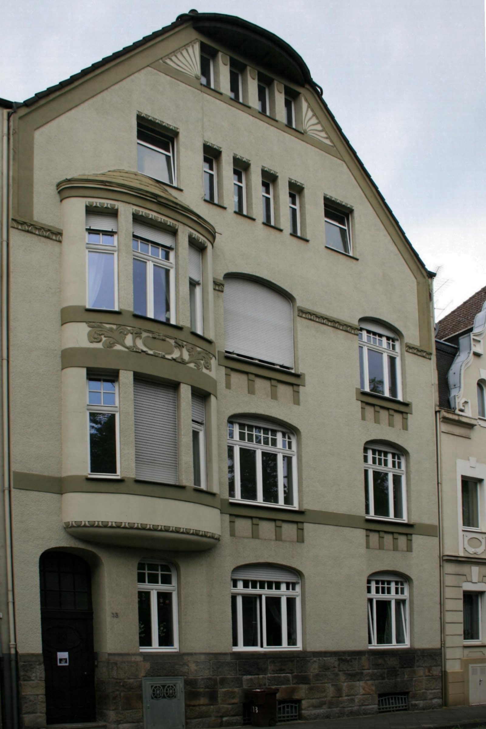 Cultural heritage monument No. B 139 in Mönchengladbach